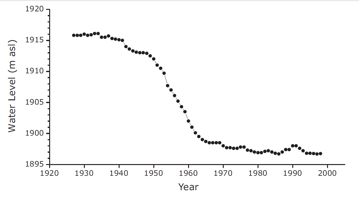 Water level changes in Sevan lake in m a.s.l. from 1920 to 2000 [